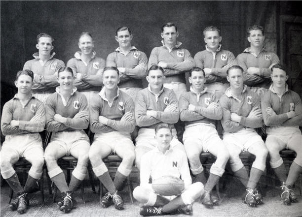 1943 Newtown Jets premiership rugby team Back row: F Speechley, Tom Kirk, Len Smith, Keith Phillips, Gordon McLennan, Herb Narvo Front row: Paddy Budgen, Norm Jacobson, Charles Cahill, Frank Farrell, Jimmy Brailey, Tom Nevin, D Fullerton